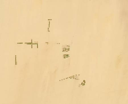 Satellite picture by NASA at 26 january 2003 of the New Valley Project, 300 km west of Lake Nasser near the sudanese border.